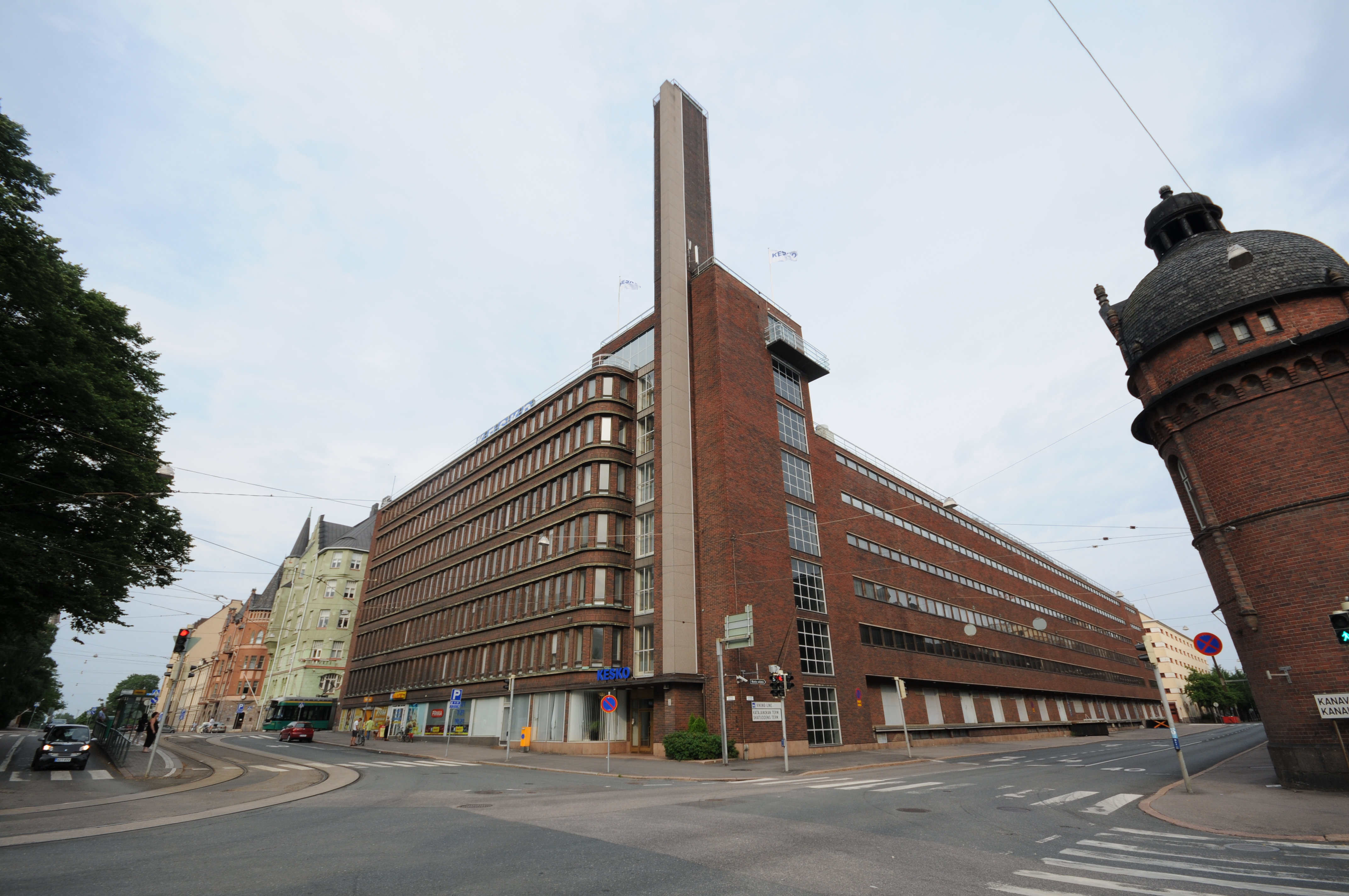 Headquarters of Kesko Corporation in Katajanokka, Helsinki, Finland.